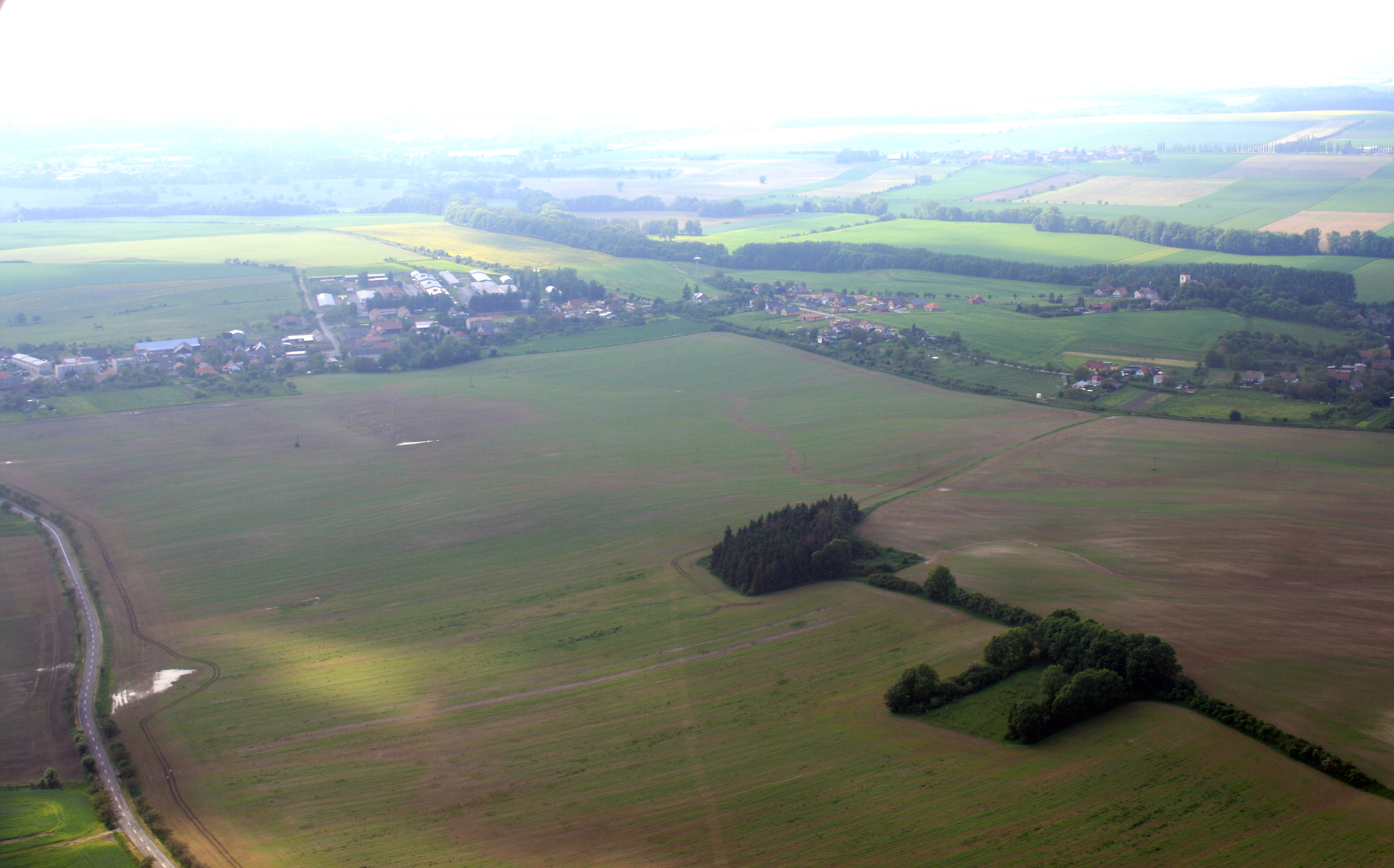 Villages Zvole and Rychnovek from air, eastern Bohemia, Czech Republic